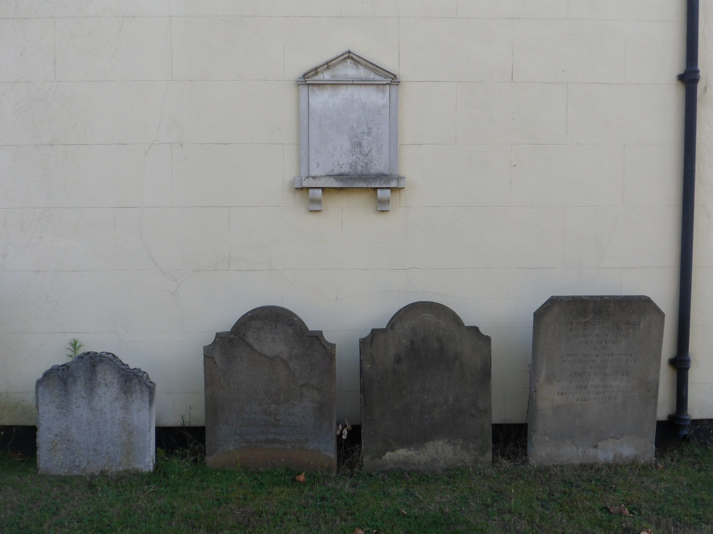 Headstones against the wall of the former Bugby Chapel, Prospect Place, Epsom, Surrey, England, seen from the northeast